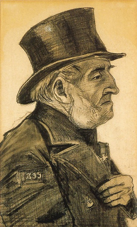 Vincent van Gogh - Orphan Man with Top Hat (F954), 1883 Worcester Art Museum